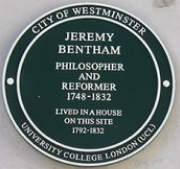 1=Commemorative Plaque to Jeremy Bentham Commemorative plaque to Jeremy Bentham on the gateway of the Home Office building at 50 Queen Anne's Gate. The plaque was unveiled on 12th October 2004.